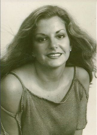 Theresa Ferrara